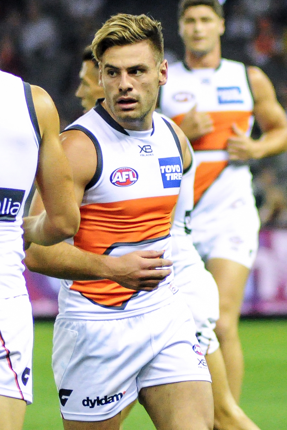 Stephen Coniglio during the AFL round five match between St Kilda and Greater Western Sydney on 21 April 2018 at Etihad Stadium in Melbourne, Victoria.